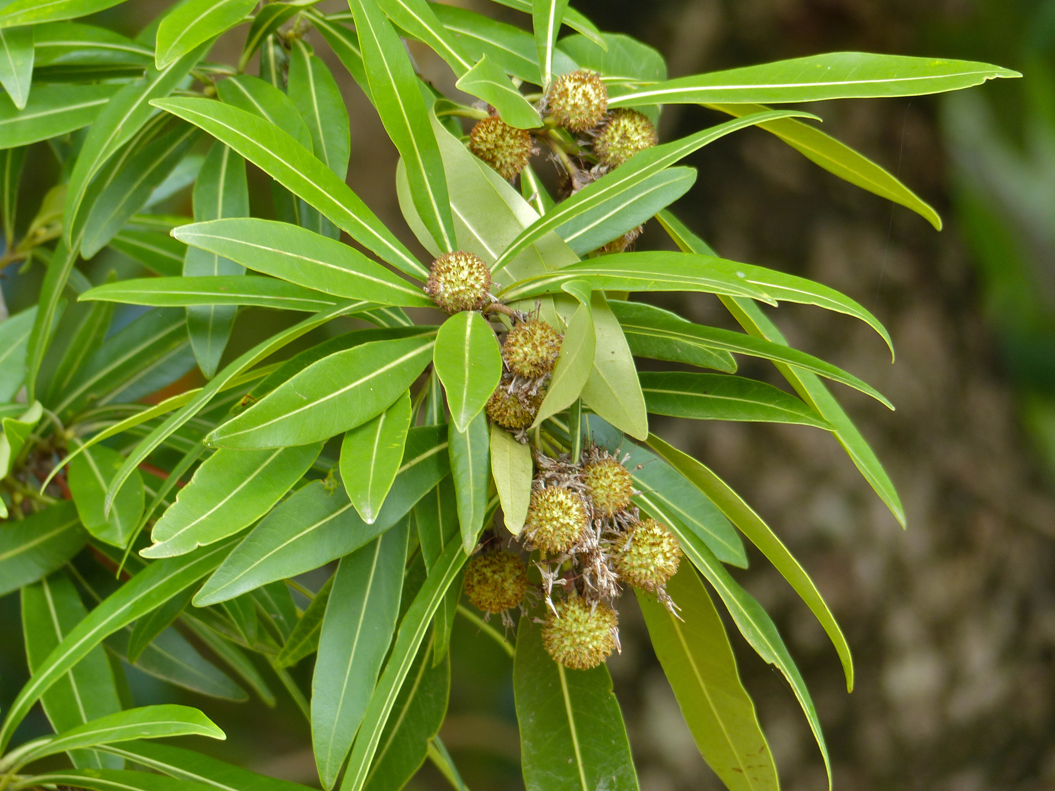 S25 Road West of Crocodile Bridge, Kruger NP, SOUTH AFRICA